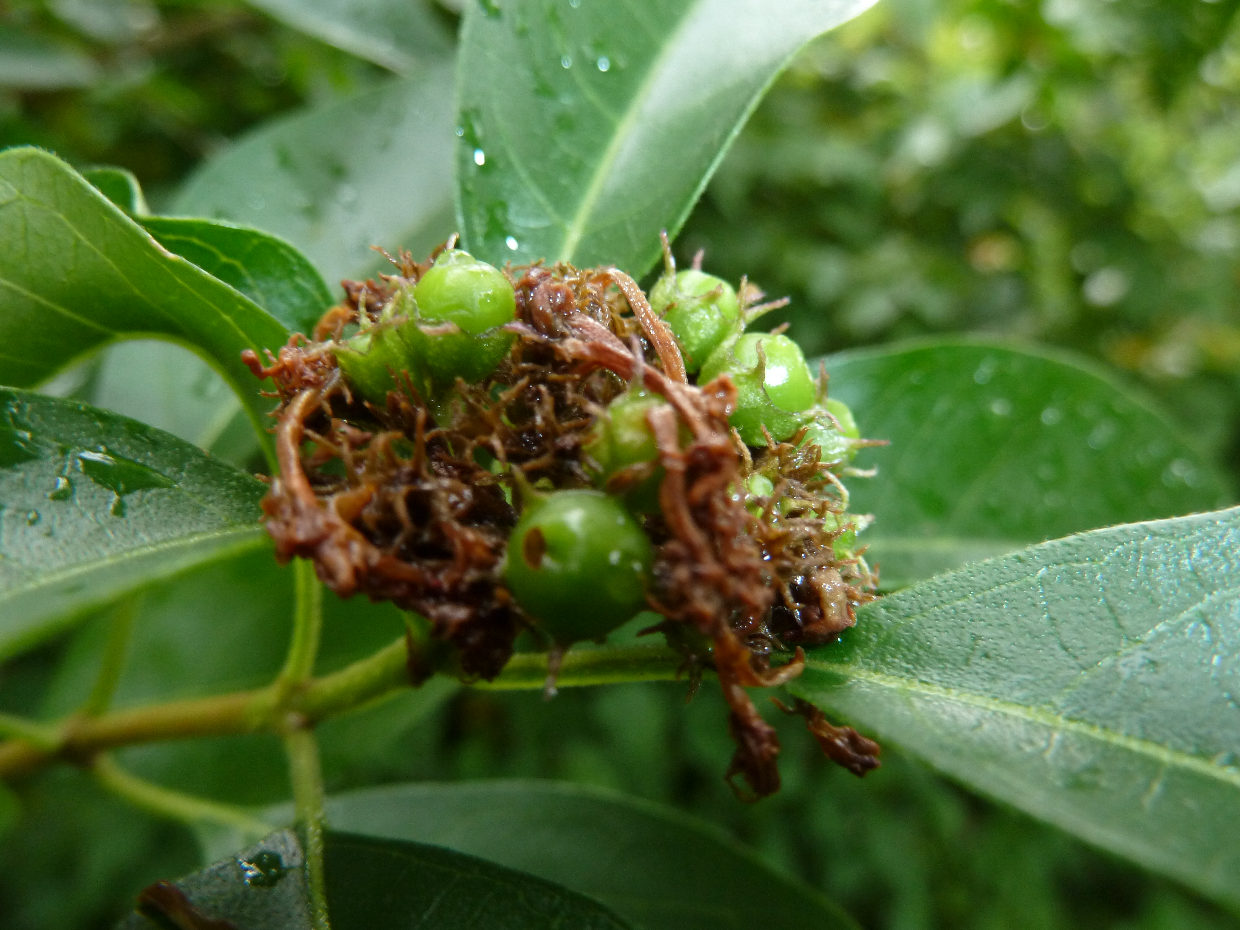 Fruit of a Tinderwood in the Manie van der Schijff Botanical Garden, University of Pretoria, South Africa